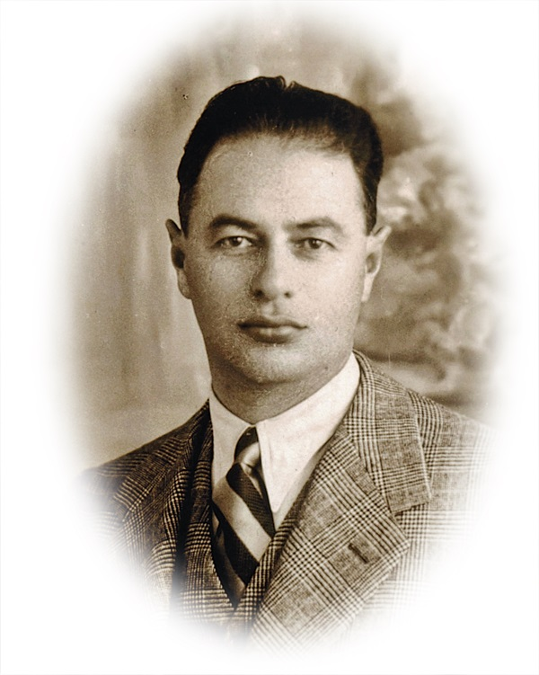 Árpád Weisz (1896 –1944) a Hungarian football player and manager.